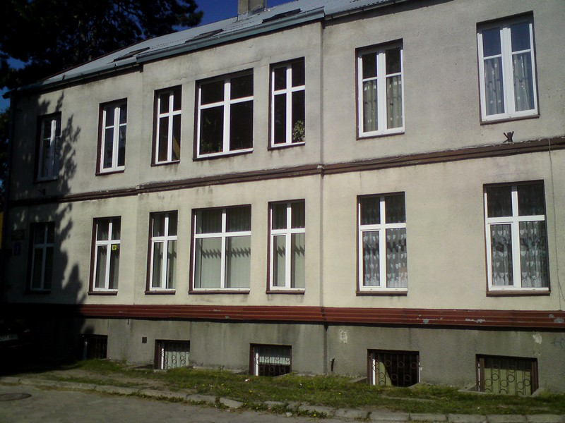 Musical school And degree in Gryfice (Poland)